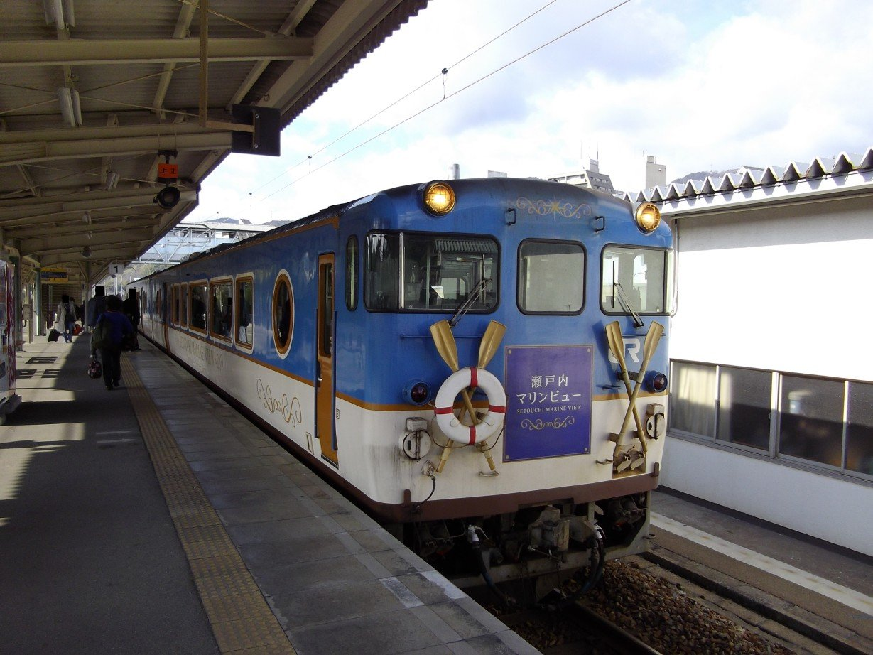 Setouchi Marine View train at Takehara Station